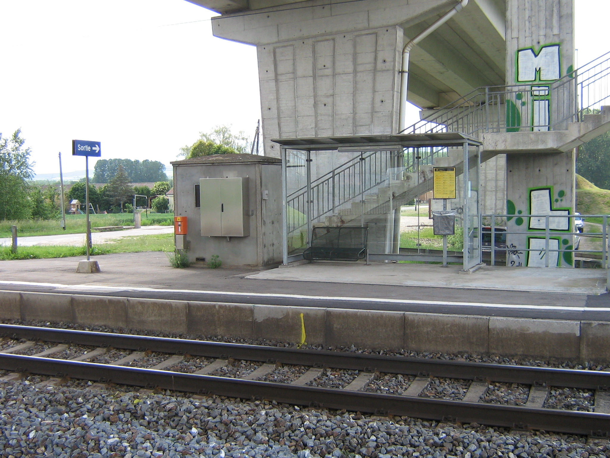 Bavois railway station, track 1.